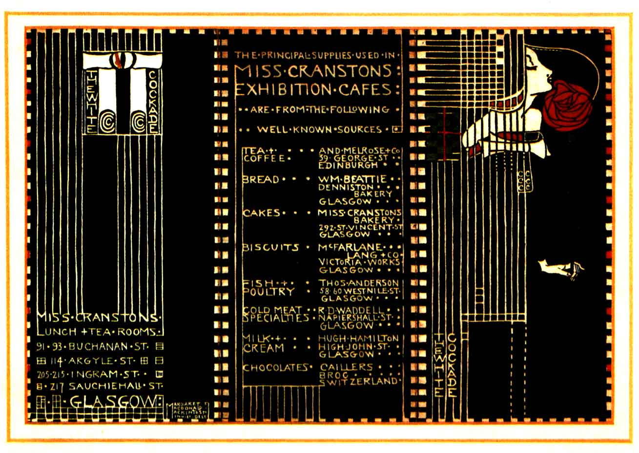 Menu card design for Miss Cranston's Cafes at the 1911 Scottish Exhibition of National History, Art and Industry.